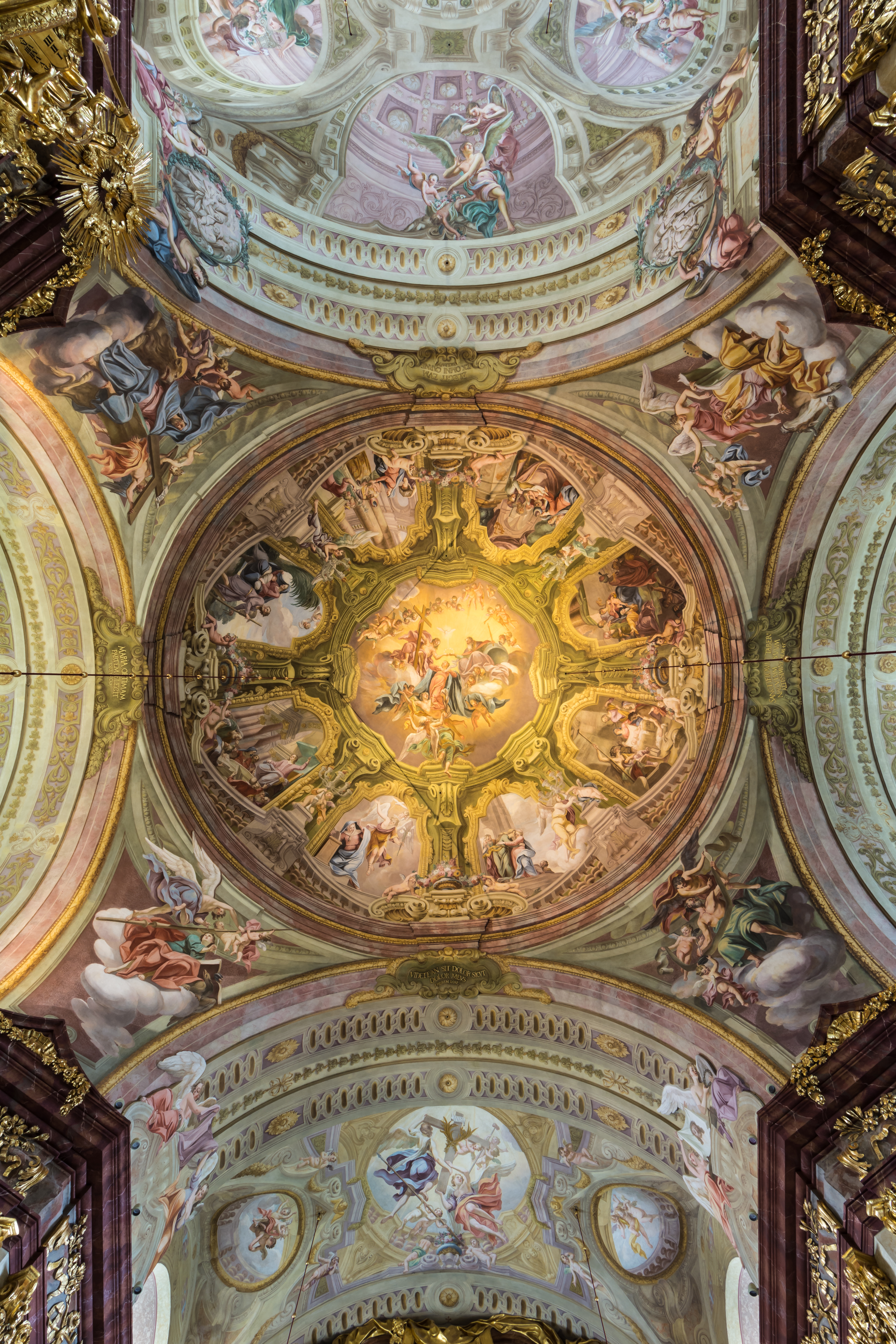 Fresco in the dome of Maria Taferl Basilica (Lower Austria) by Antonio Beduzzi (1714-1718): Life and assumption of Mary